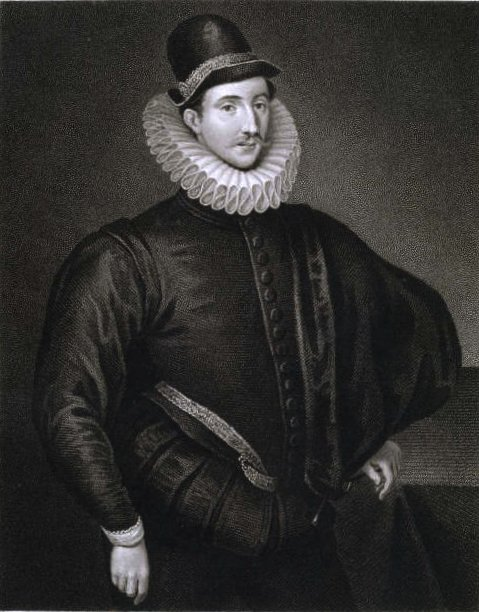 Sir Fulke Greville, 1st Baron Brooke (1554-1628). English poet and courtier. Portrait.